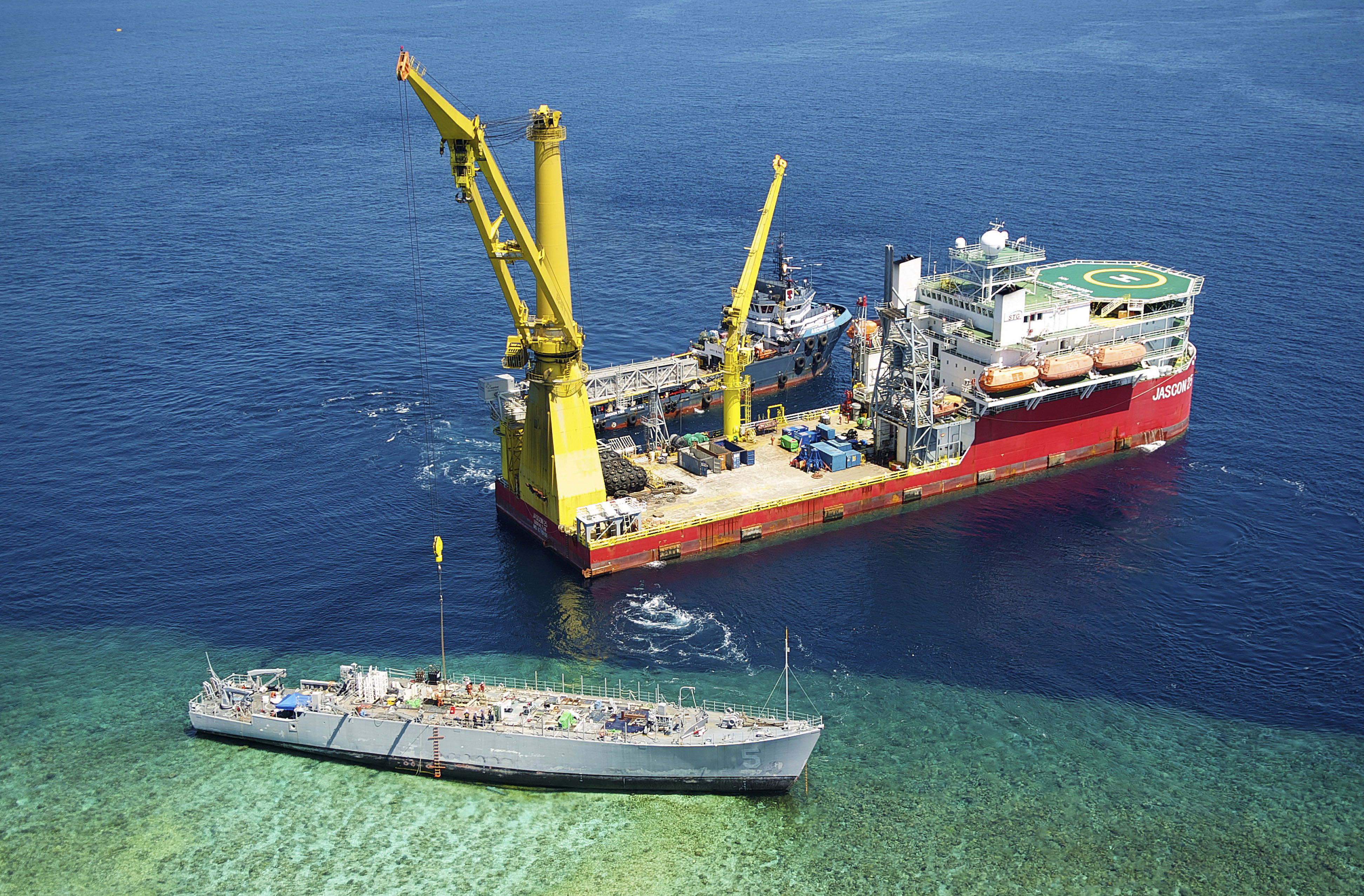 130312-N-VF350-059 SULU SEA (March 12, 2013) The U.S. Navy contracted vessels Jascon 25 and the tugboat Archon Tide are positioned next to the Avenger-class mine countermeasures ship ex-Guardian (MCM 5) during salvage operations. Guardian ran aground on the Tubbataha Reef Jan. 17. The U.S. Navy continues to work in close cooperation with the Philippine authorities to safely dismantle Guardian from the reef while minimizing environmental effects. (U.S. Navy photo by Mass Communication Specialist 1st Class Anderson Bomjardim/Released) Join the conversation navylive.dodlive.mil